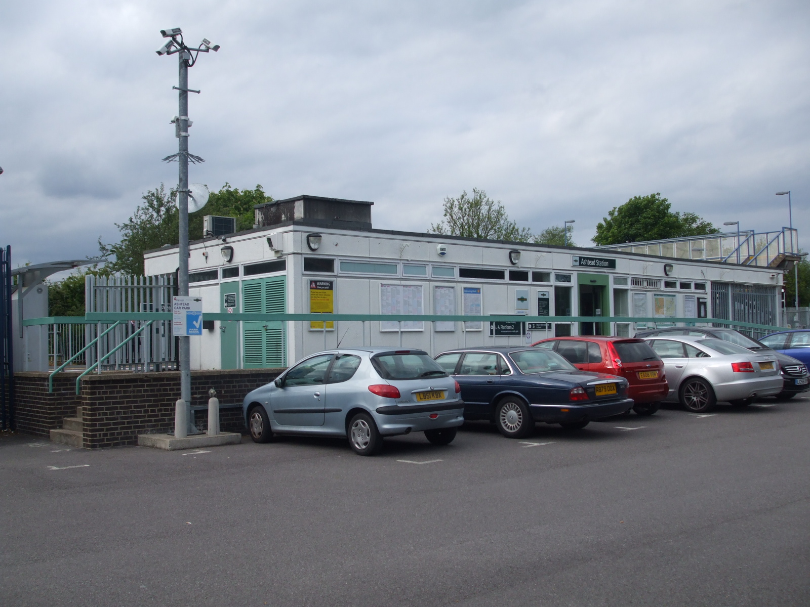 Ashtead station building, on the southbound side.